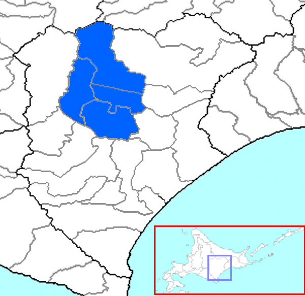 The location of Kato District in Tokachi Subprefecture, Hokkaido Prefecture, Japan.